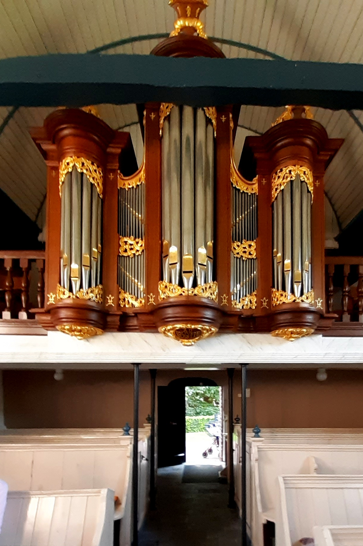 Church of Duerswâld, Schnitger-organ